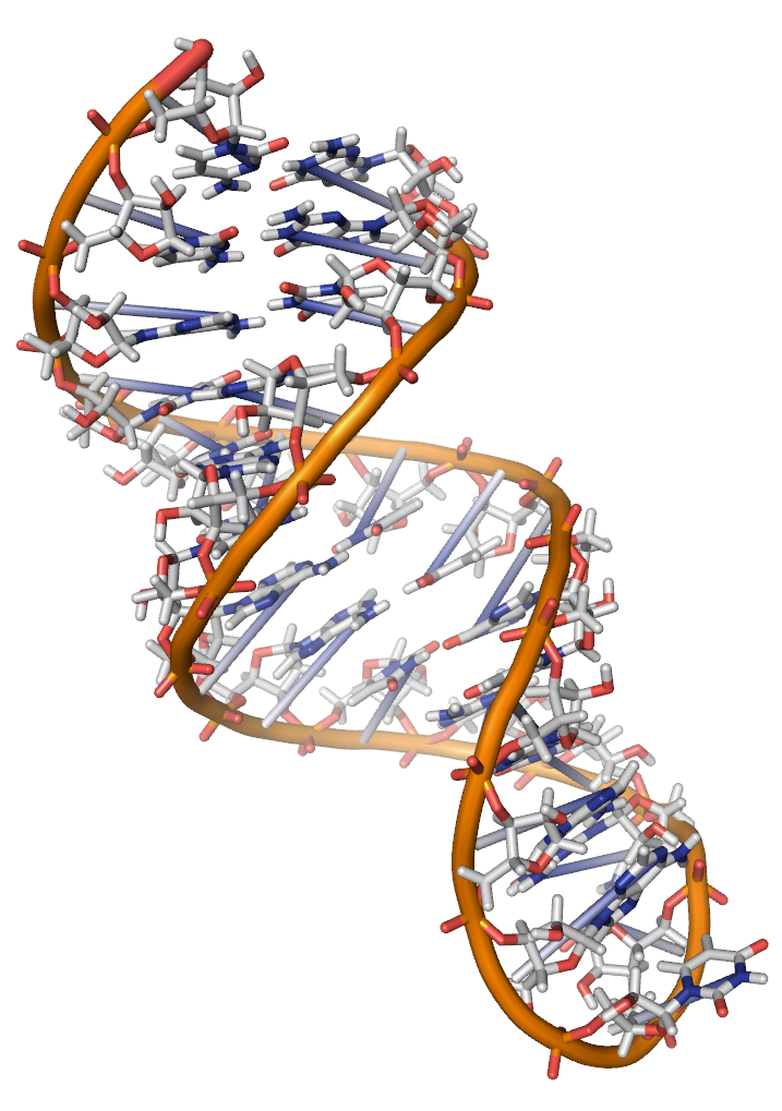 rendered from this PDB file with PyMol